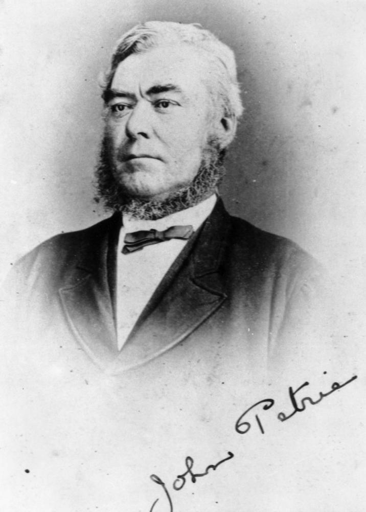 John Petrie (15 January 1822 – 8 December 1892) was the first Mayor of Brisbane, an architect, stonemason and building contractor in that City.